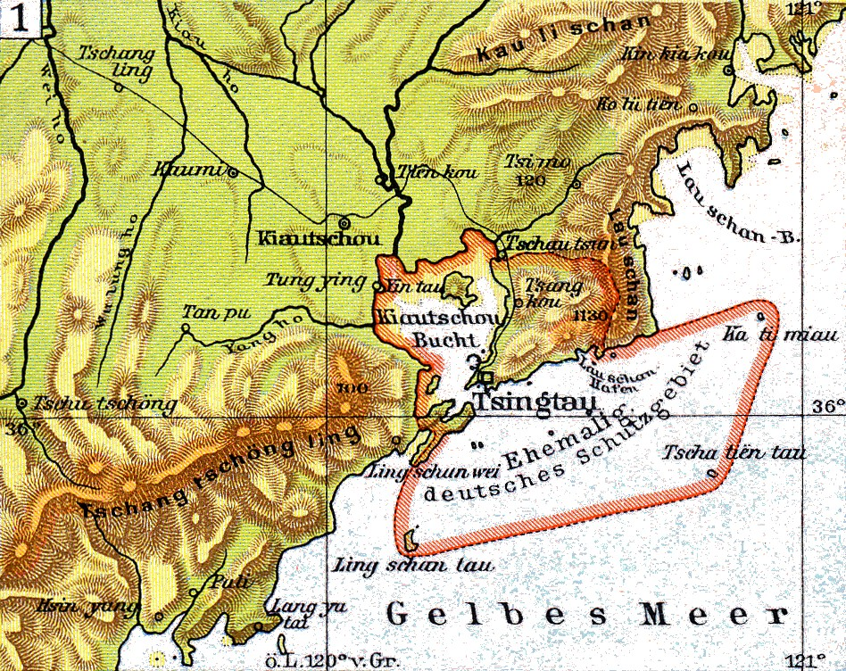 This is a part of an old atlas. It does not necessarily represent the current situation.